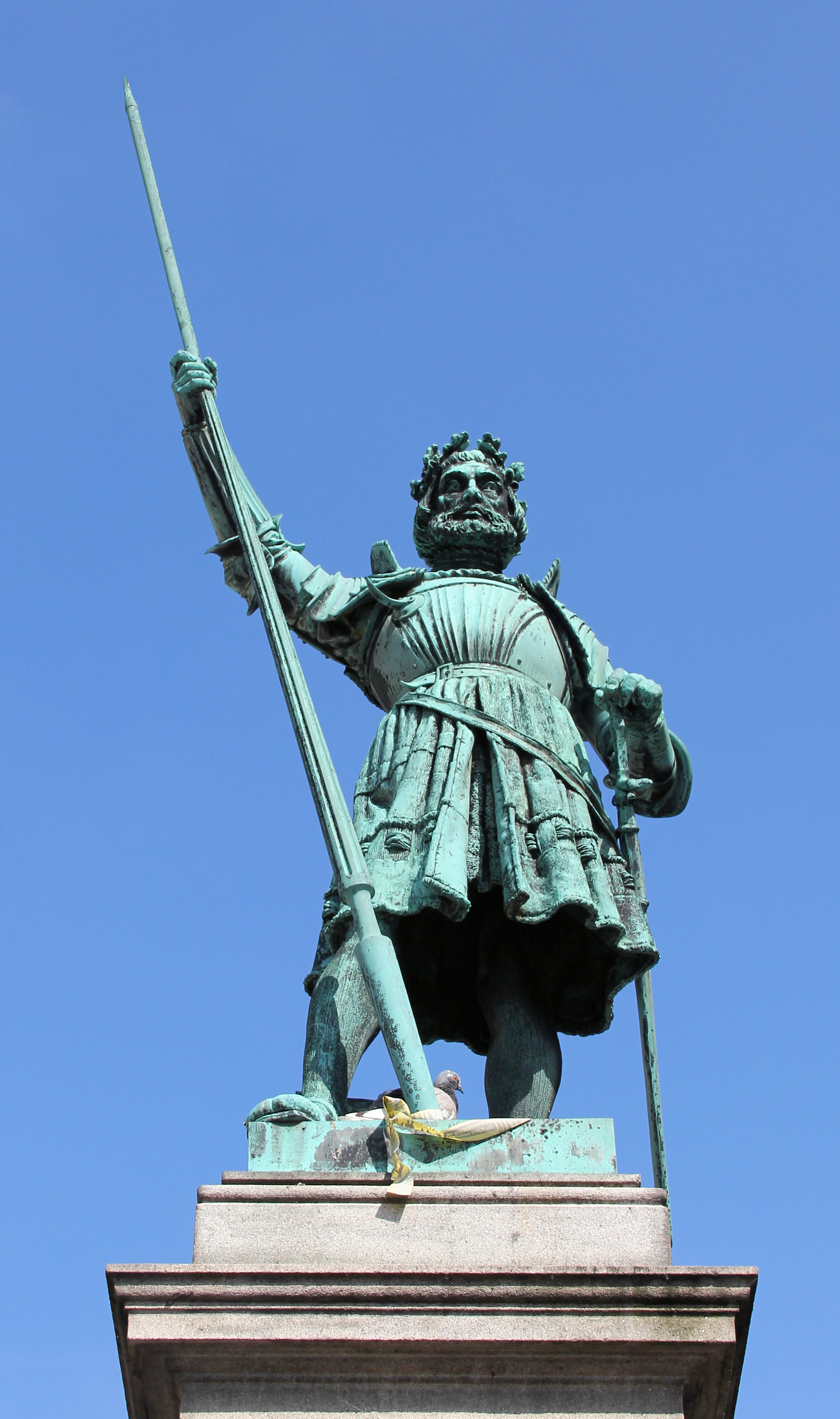 Memorial statue, Kaspar III. Winzerer, Marktstraße, Bad Tölz, Germany Koordinate:47°45′40″N 11°33′36″E / 47.76111°N 11.56°E